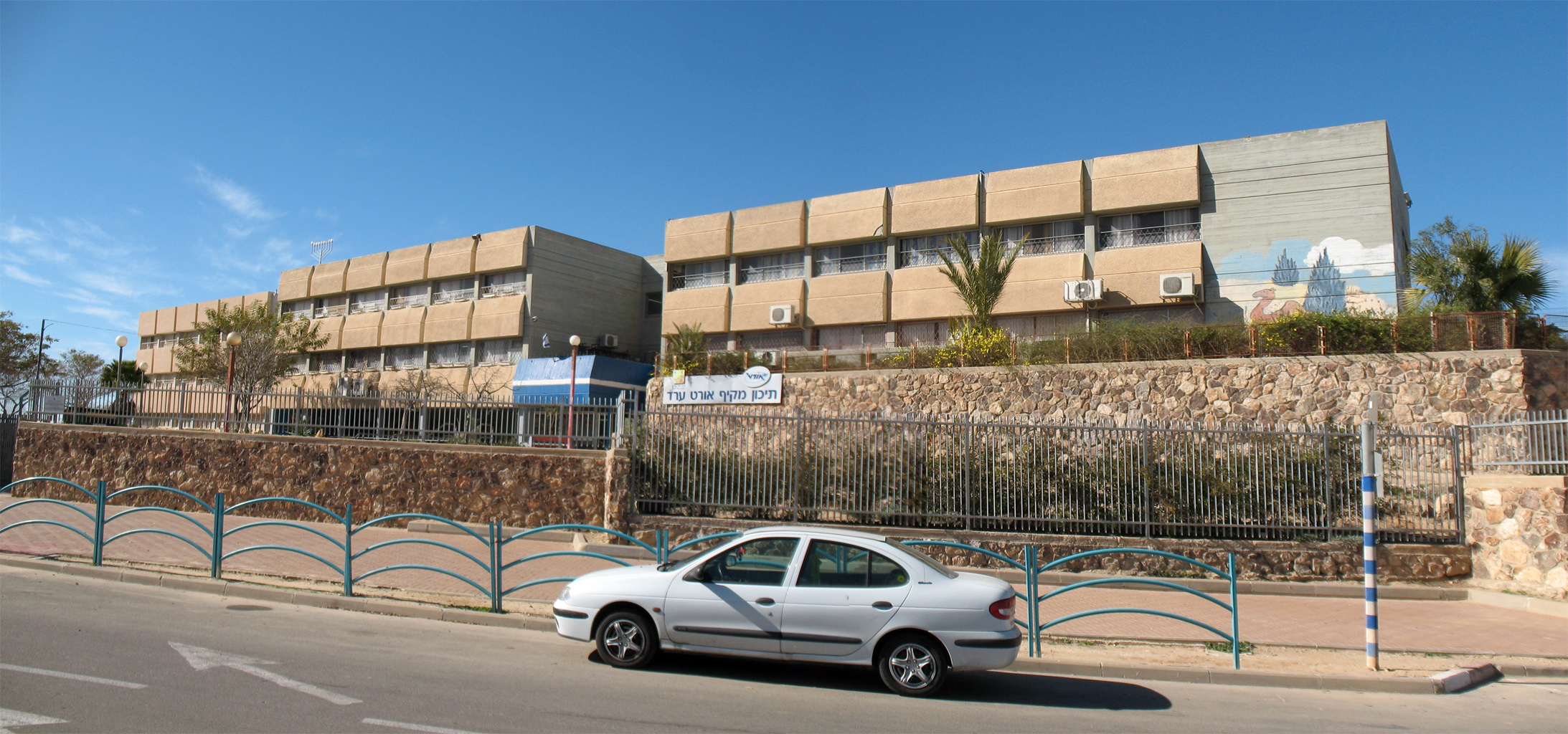 ORT Arad High School, formerly the building used by the Yigal Allon Junior High School in Arad, Israel